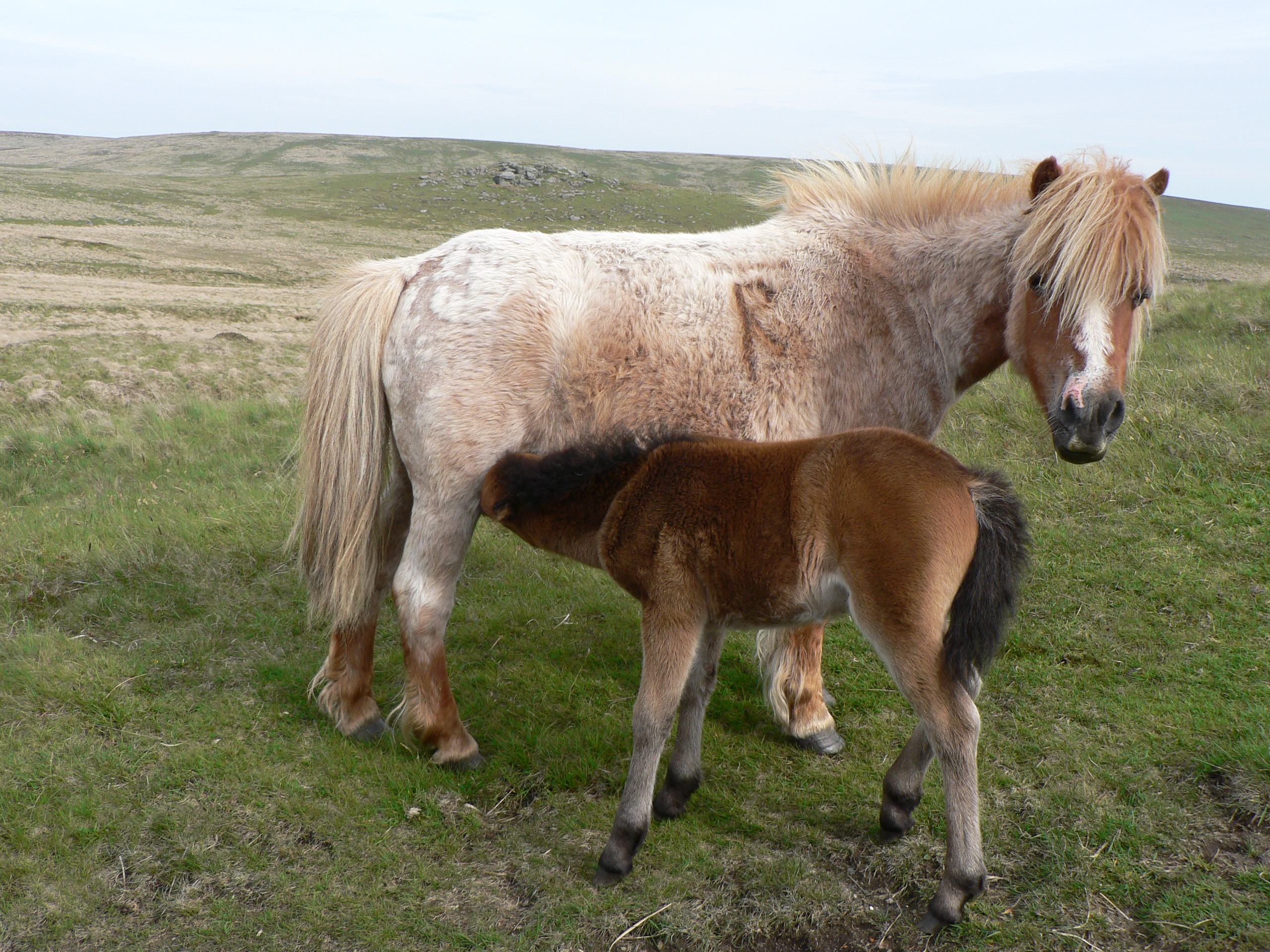 A couple of Dartmoor ponies. Cornwall. Taken on May 25, 2005.